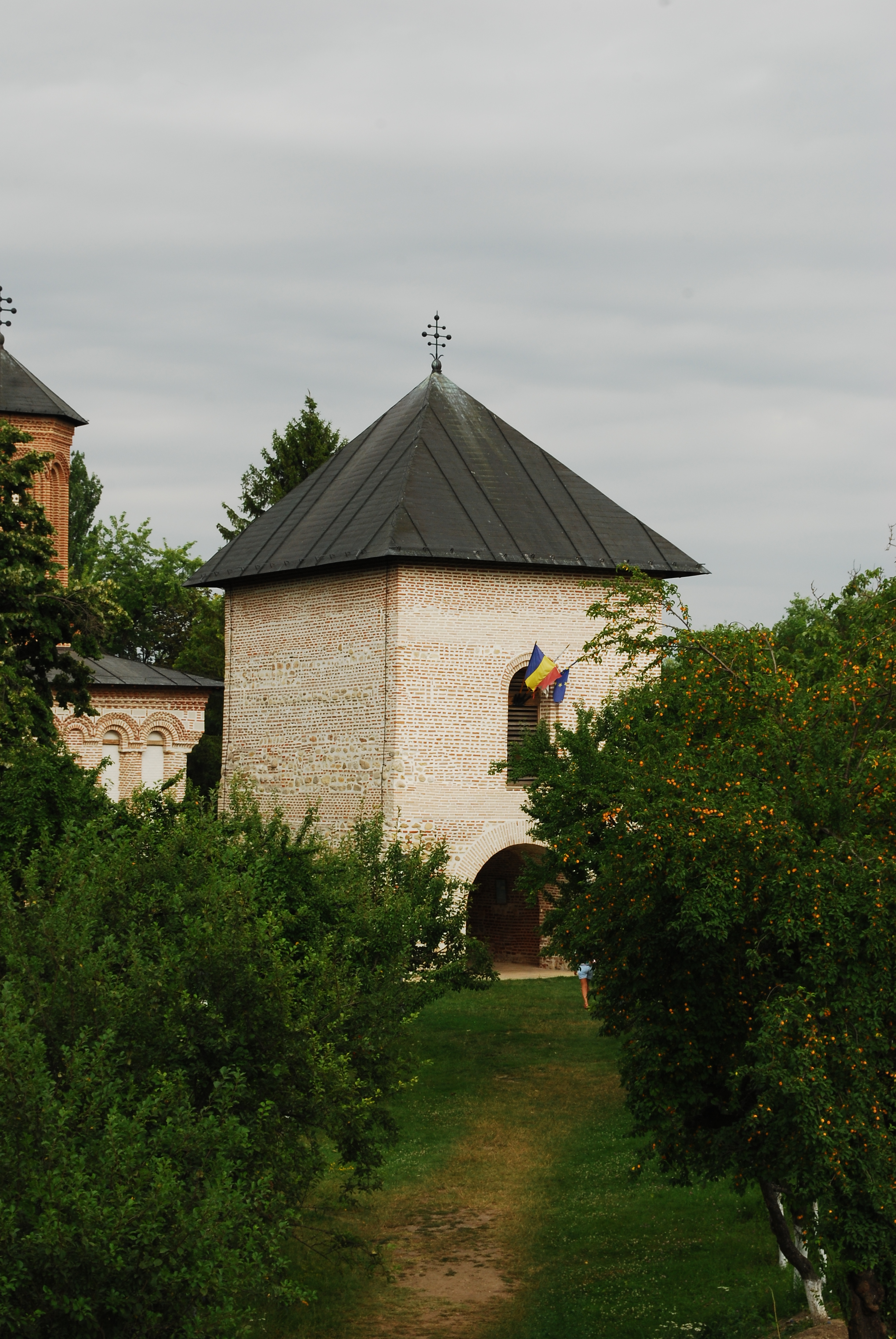 Belfry of former Snagov monastery, near Snagov, Ilfov County, Romania 02